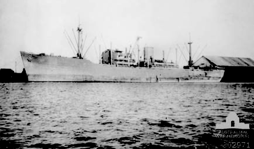 Port side view of the Dutch vessel SS Bantam which was heavily damaged by Japanese air attack at Oro Bay, New Guinea on 1943-03-28 in the course of Operation Lilliput. (This is not accurate as a comparison with that vessel in shows, note particularly the masts This is MV Bantam) Note that there were two Dutch vessels of this name in Australian waters during World War 2. A representation of the other is held as negative no 302970.